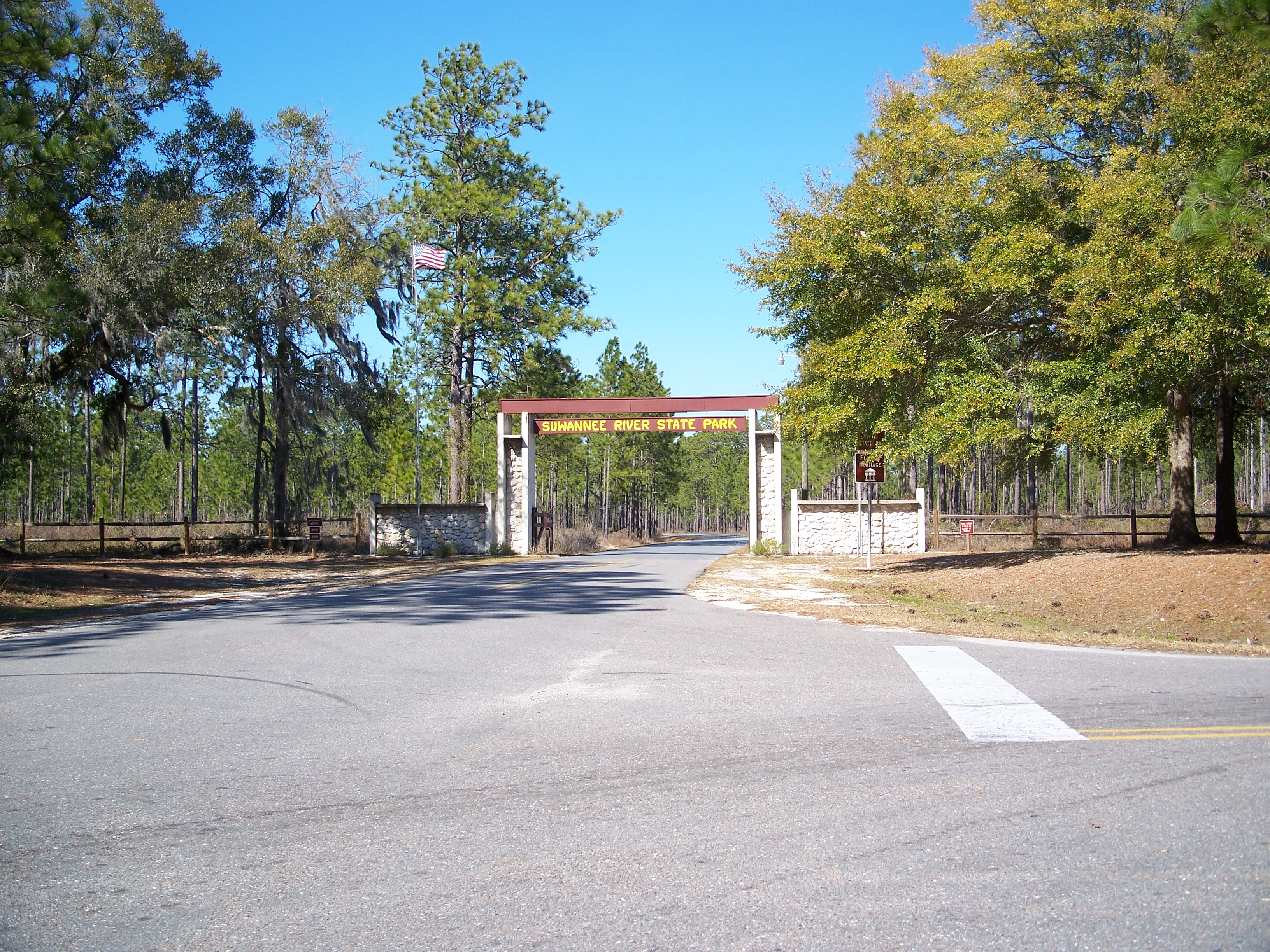 Entrance to Suwannee River State Park, near Live Oak, Florida